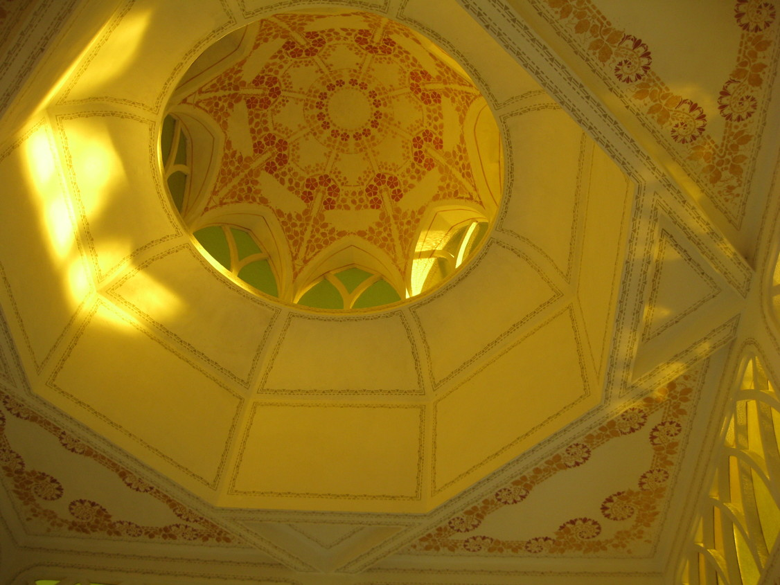 Inside view of the restored Cupola of the water building near Salmière spring in the village Alvignac (Lot, France